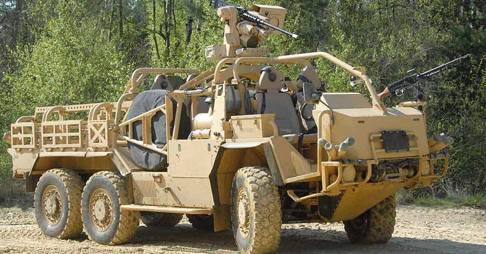 Extenda